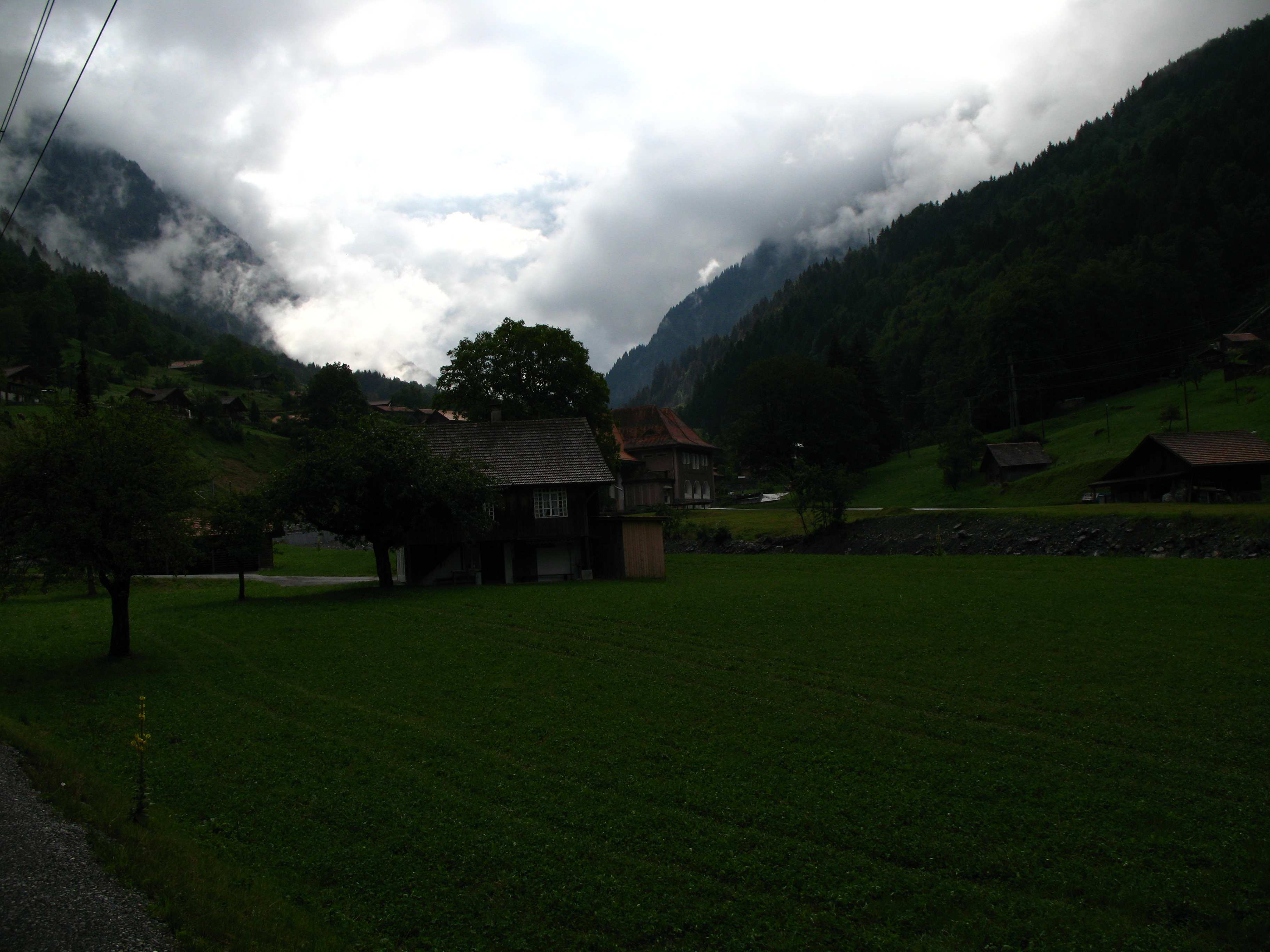 Black Lütschine, Lütschine Valley, Switzerland s - Google Maps - Google Earth